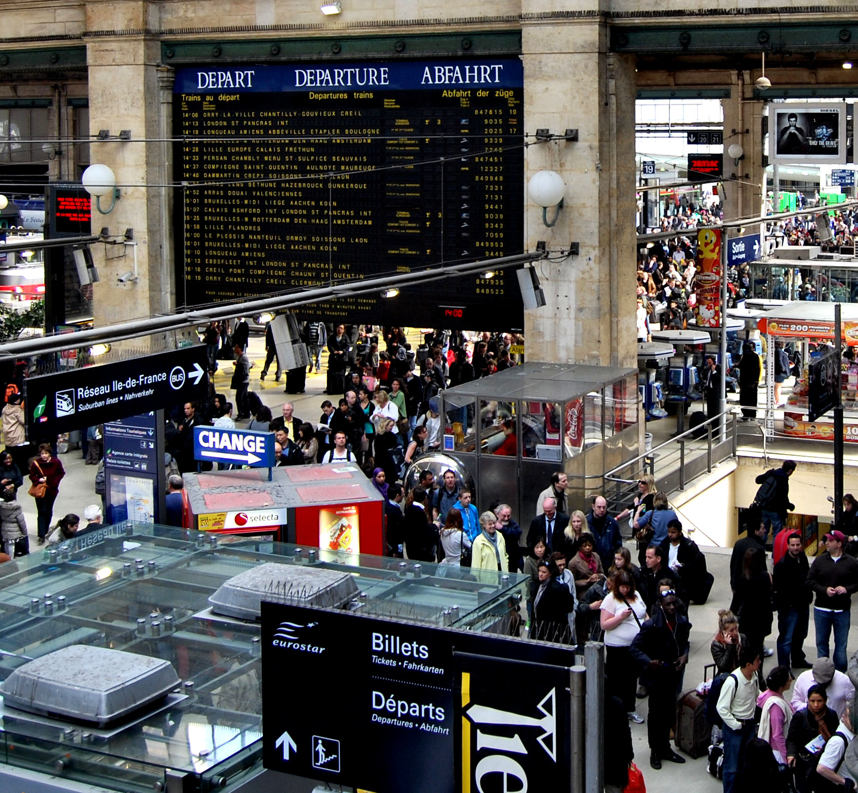 People waiting in line at the ticket office on the Gare du Nord railway station in Paris sat. April 17, 2010.